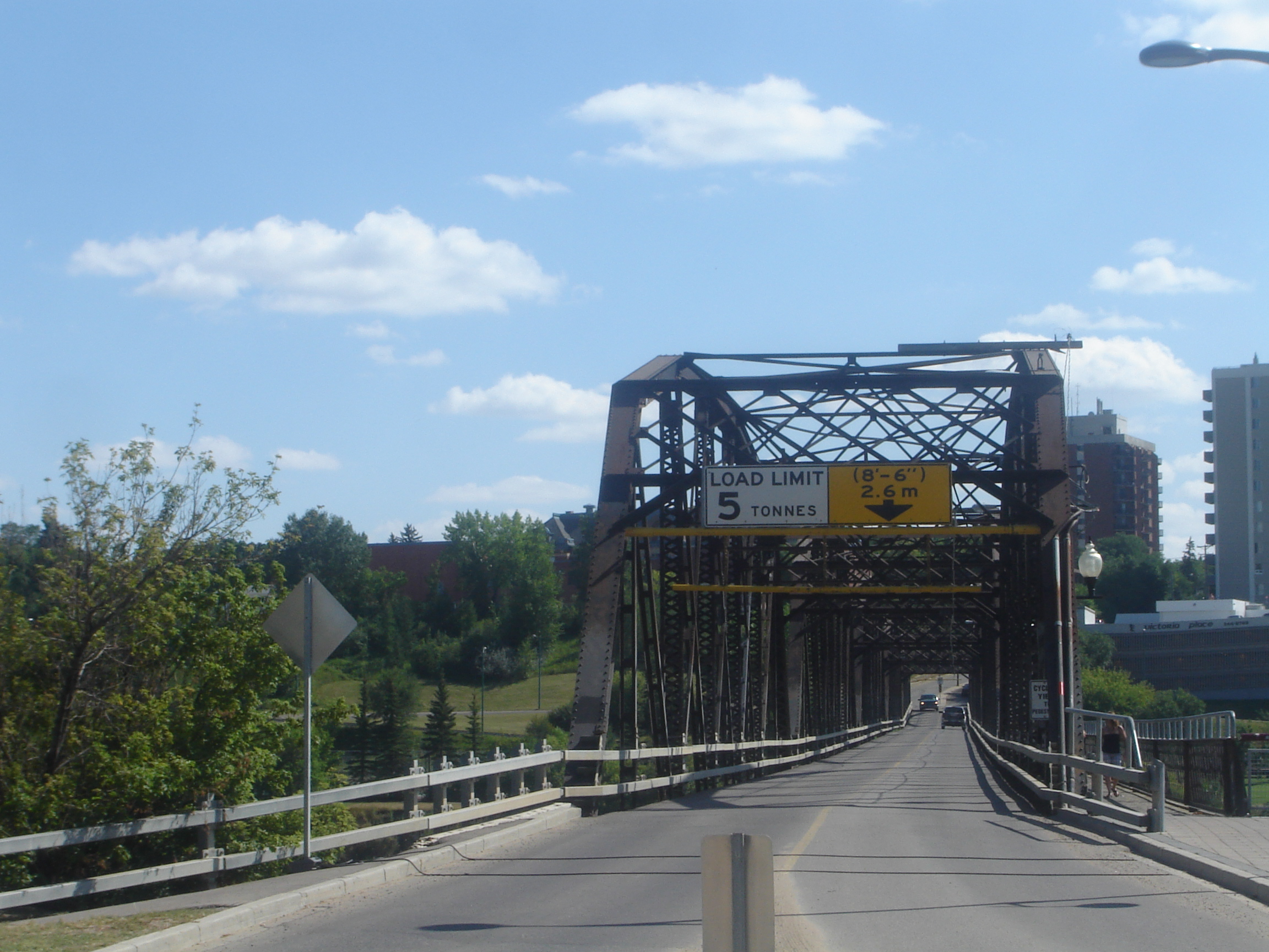 Victoria Bridge or Traffic Bridge Central Business District, Saskatoon, Saskatchewan, Core Neighbourhoods SDA, Saskatoon